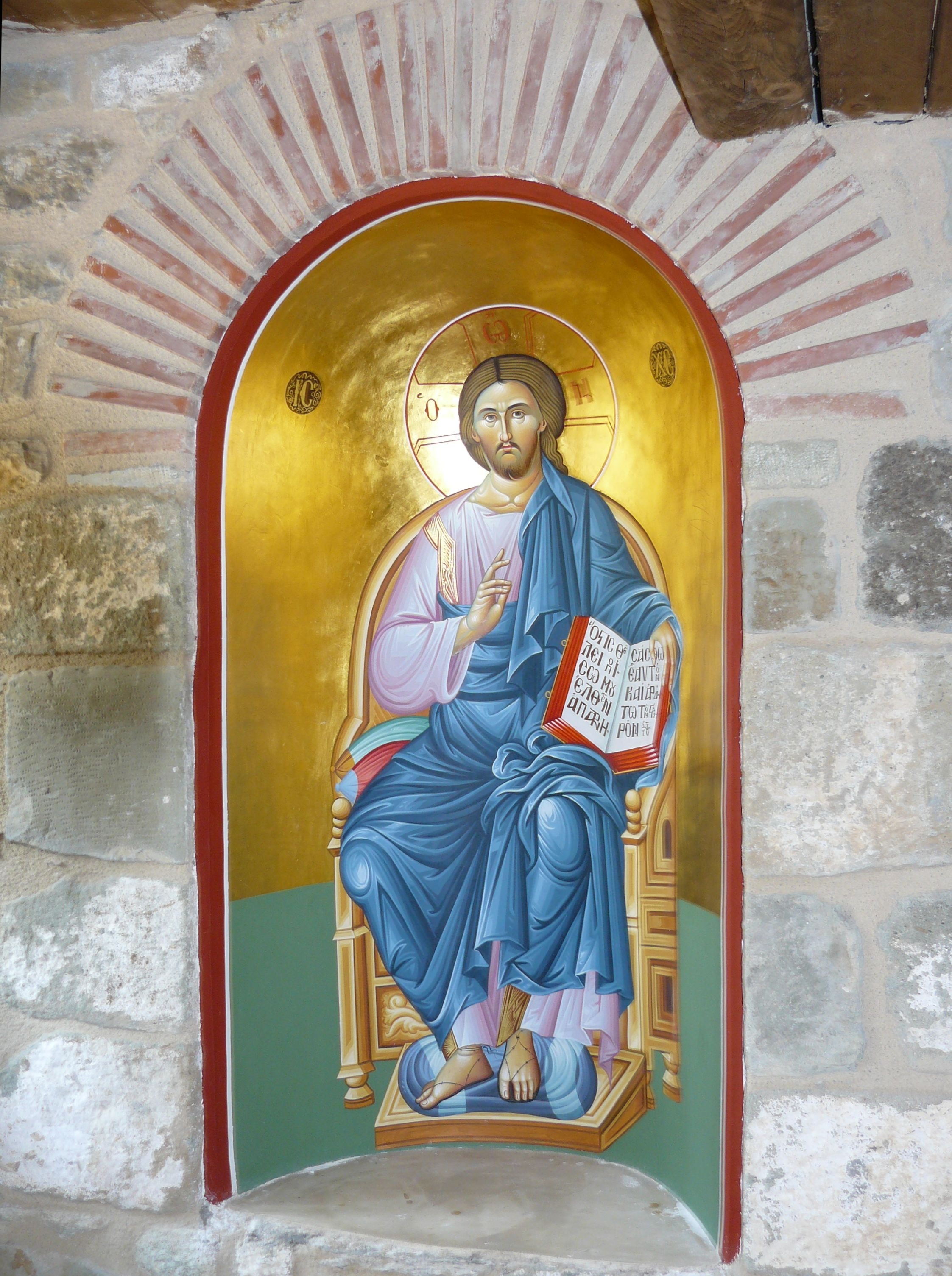 Christ Pantocrator - the painting in the niche of the wall of the Holy Trinity's monastery, Meteora, Greece